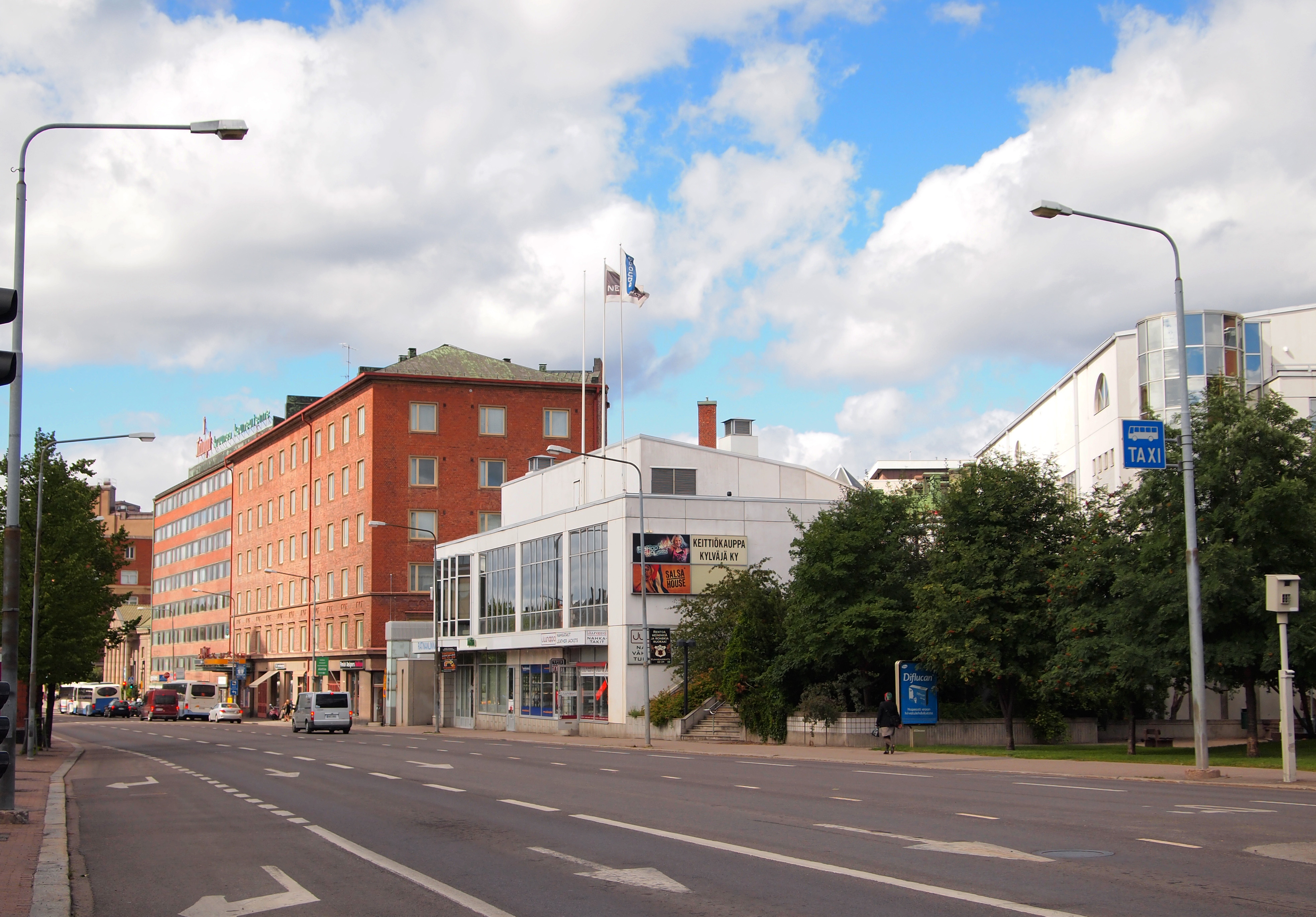 Street Hatanpään valtatie in Tampere. This photograph was taken with an Olympus E-PL1